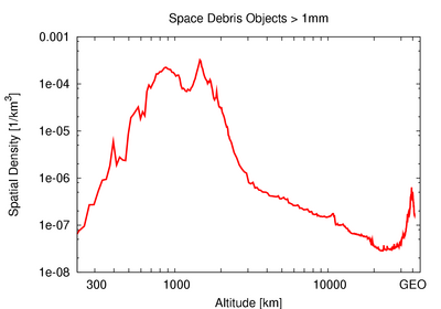 Spatial Density of Fragmentation Debris